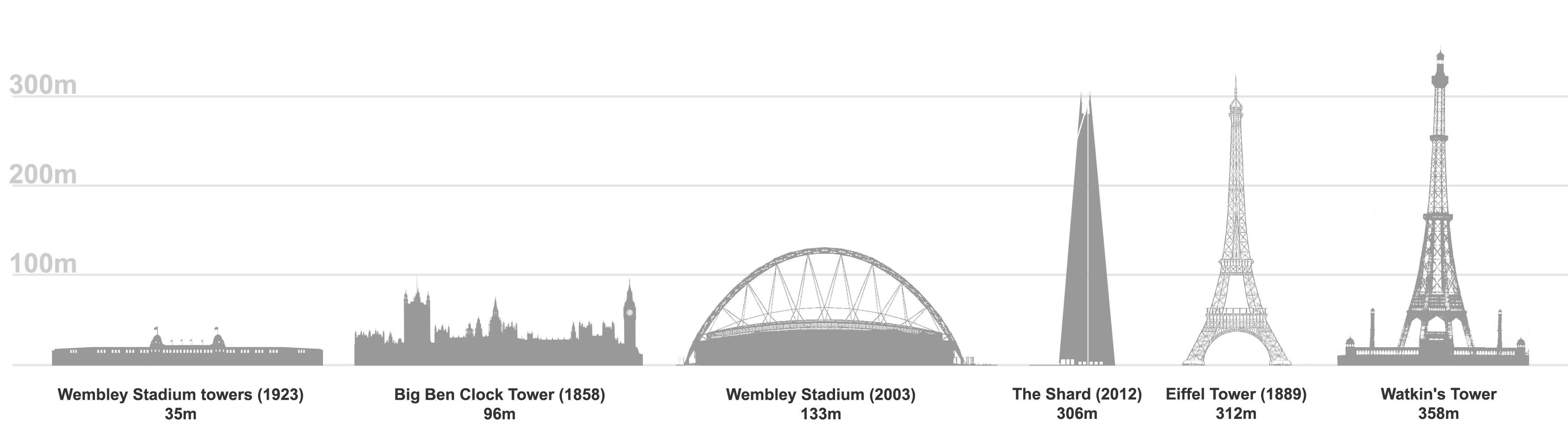 Comparative diagram of the proposed Watkin's Tower (358m) with the Eiffel Tower (312m), the new Wembley Stadium (133m), Big Ben (96m) and the old Wembley Stadium (35m) Watkin's Tower in Wembley, London, UK was designed to rival the Eiffel Tower in Paris. It was begun 1894 but never completed, and eventually demolished to be replaced by Wembley Stadium in 1923.